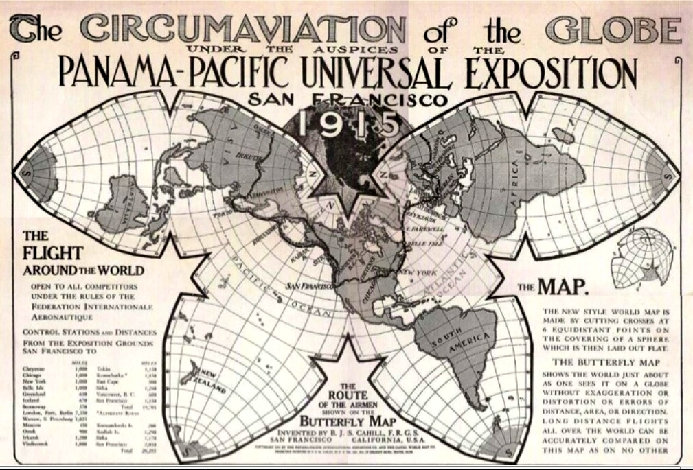 Cahill-butterfly projection used in 1915's pamflet of the circum-aviation of the globe